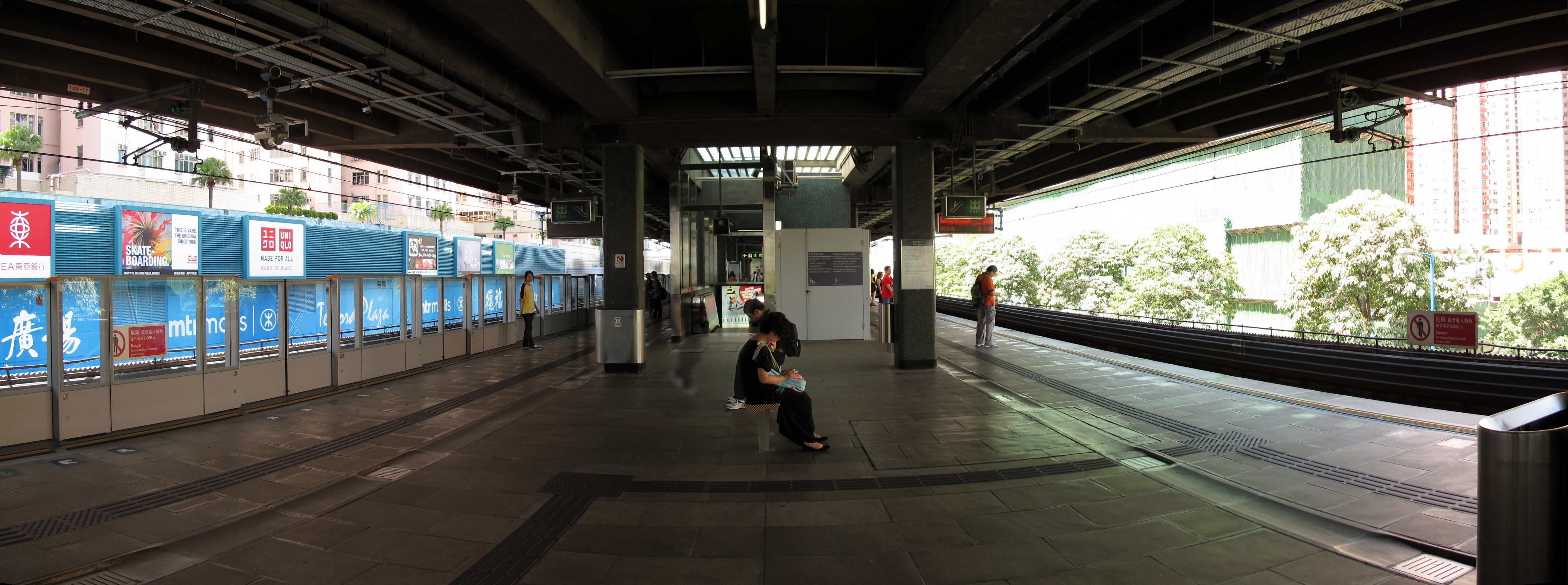 Kowloon Bay Station Platform Pano